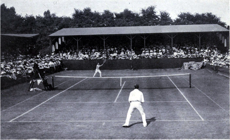 Semi-final at the all-comers-competition at Wimbledon 1906. Arthur Gore vs. Tony Wilding